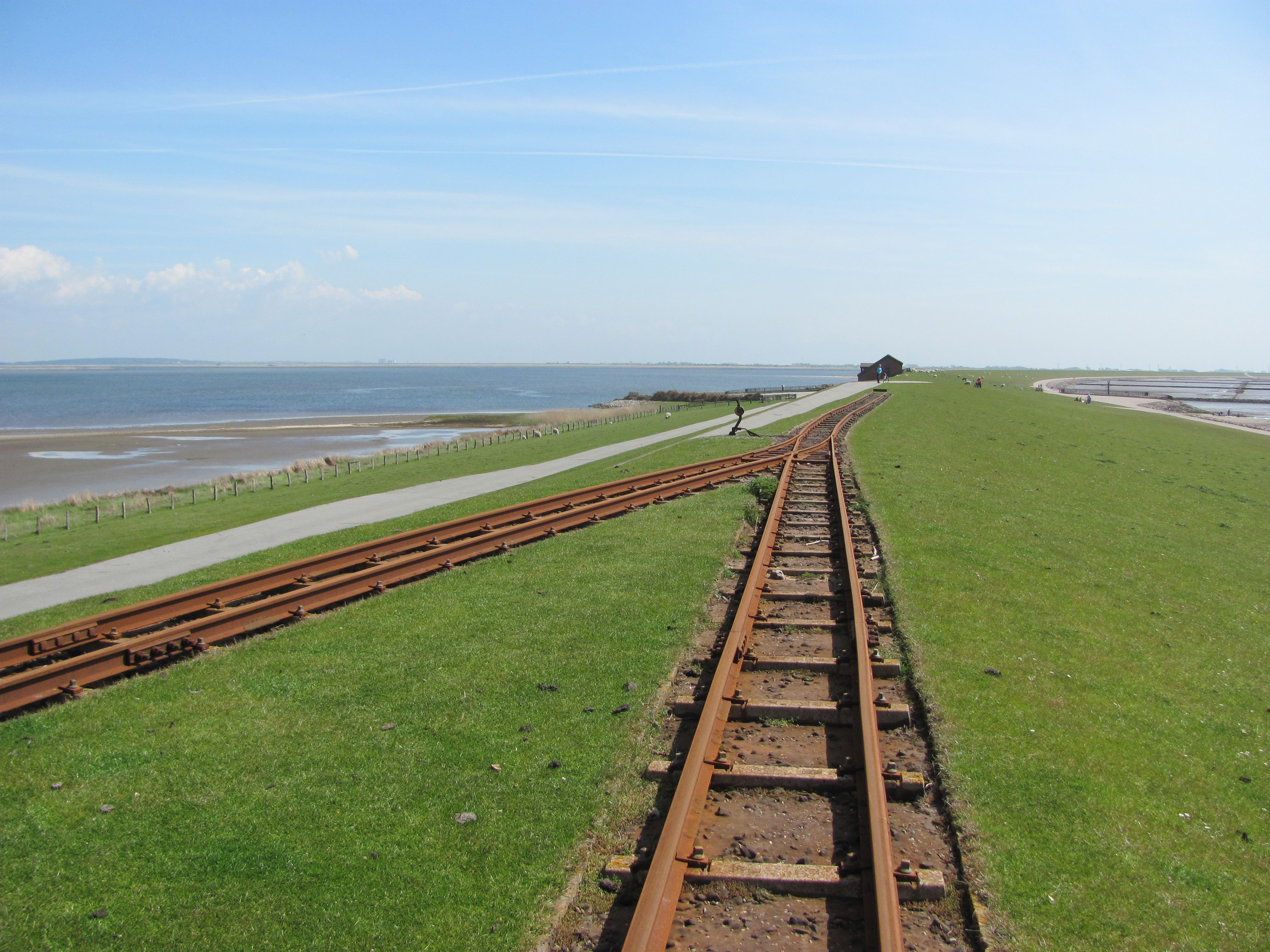 Narrow gauge railway Nordstrandischmoor: Zig-zag